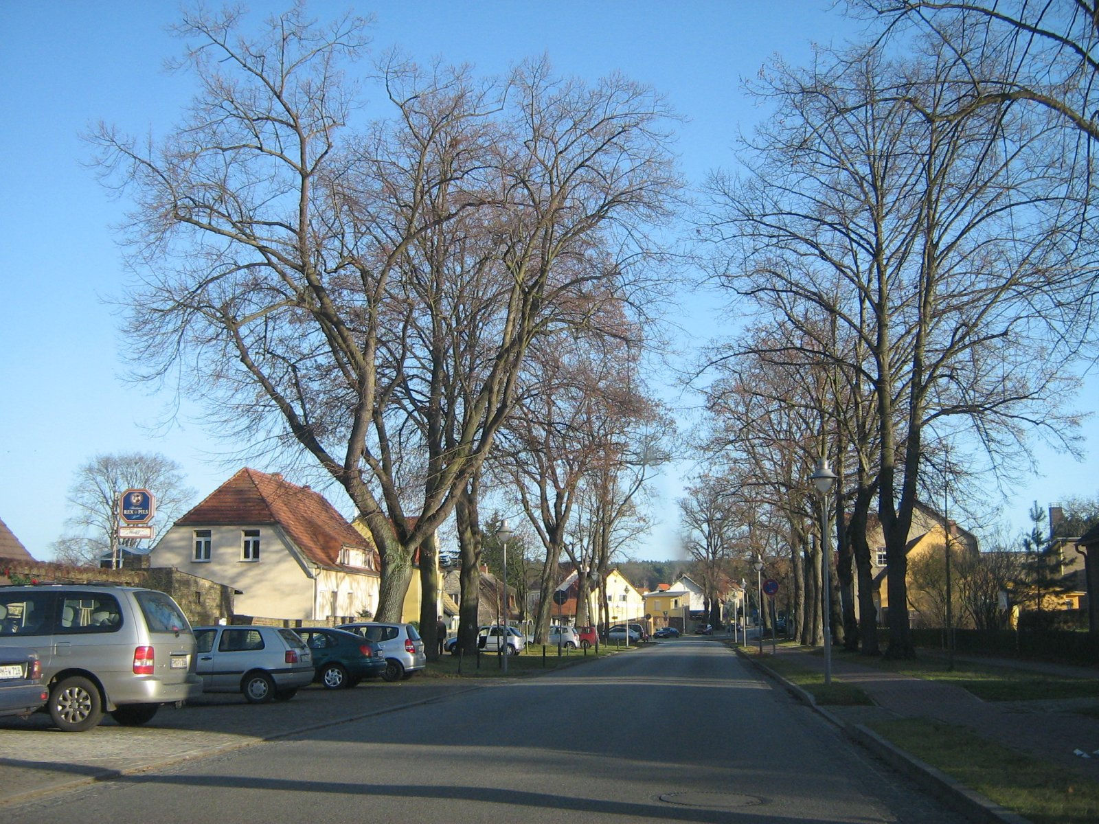 Village Caputh, Landkreis Potsdam Mittelmark, Brandenburg, Germany - Road in Caputh.